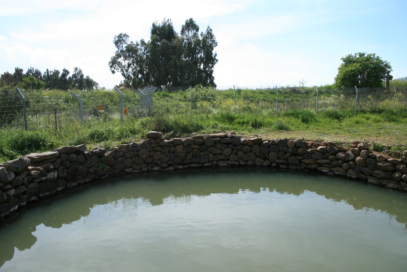 "Ein Mokesh" pool amongst the ruins of Ein-Zivan, Golan Heights, Israel.